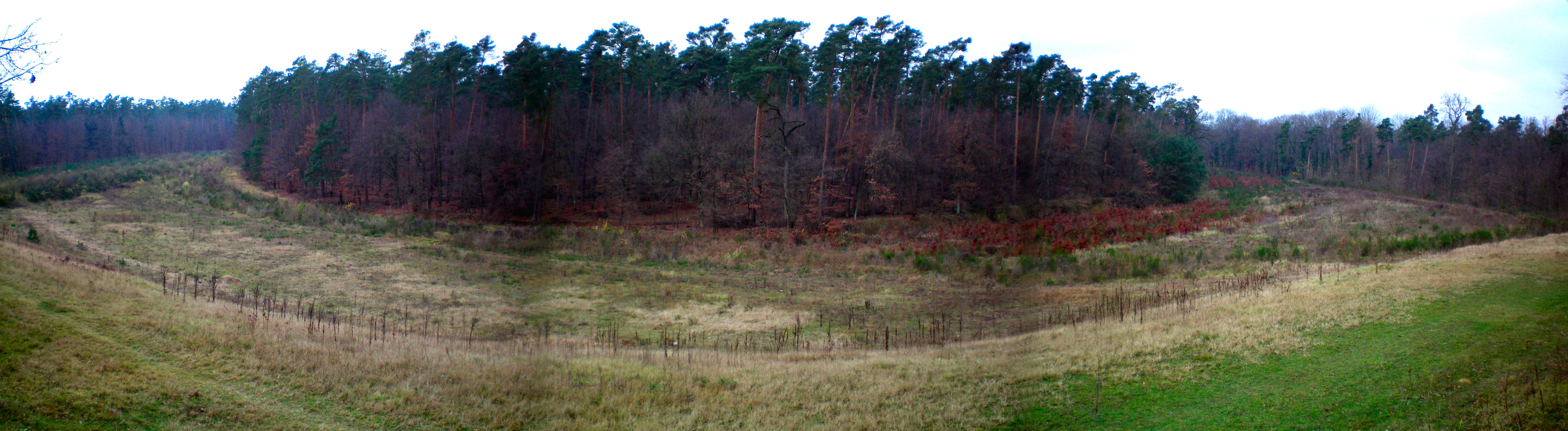 The remains of the fabled Ostkurve as the old circuit is returned to nature. (Feb 2008)